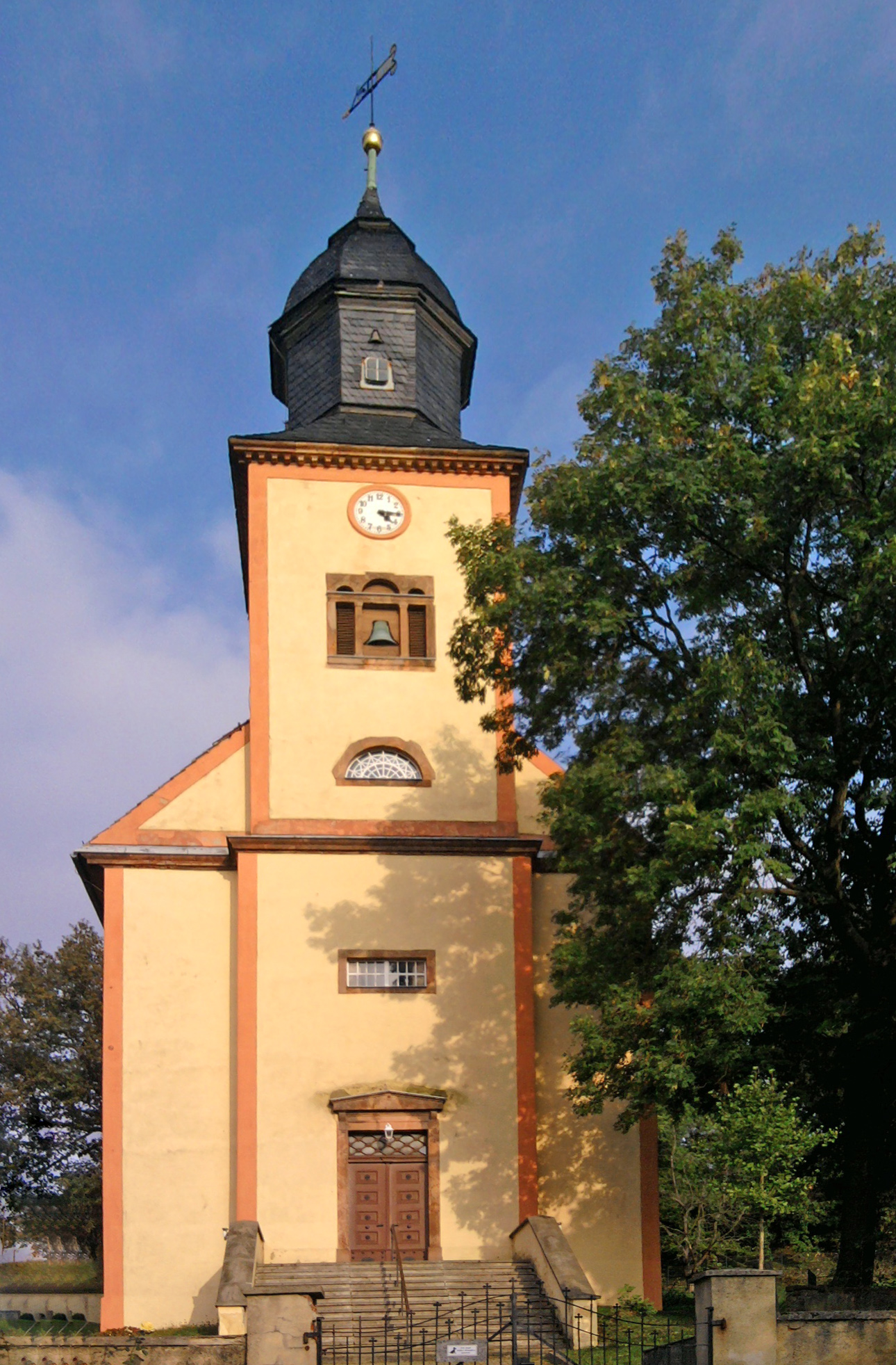 Church in Frohnsdorf near Altenburg/Thuringia/Germany